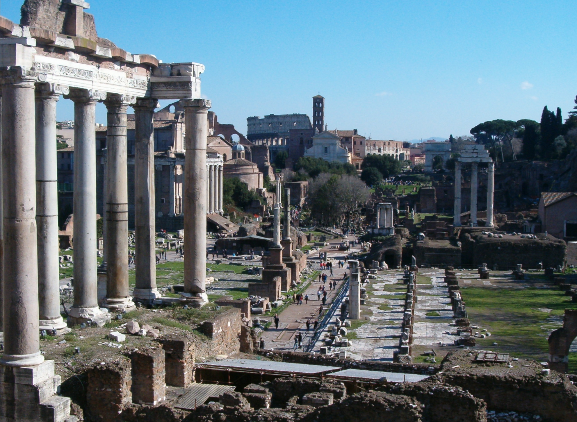 Temple of Saturn, in the Forum Romanum, Rome.